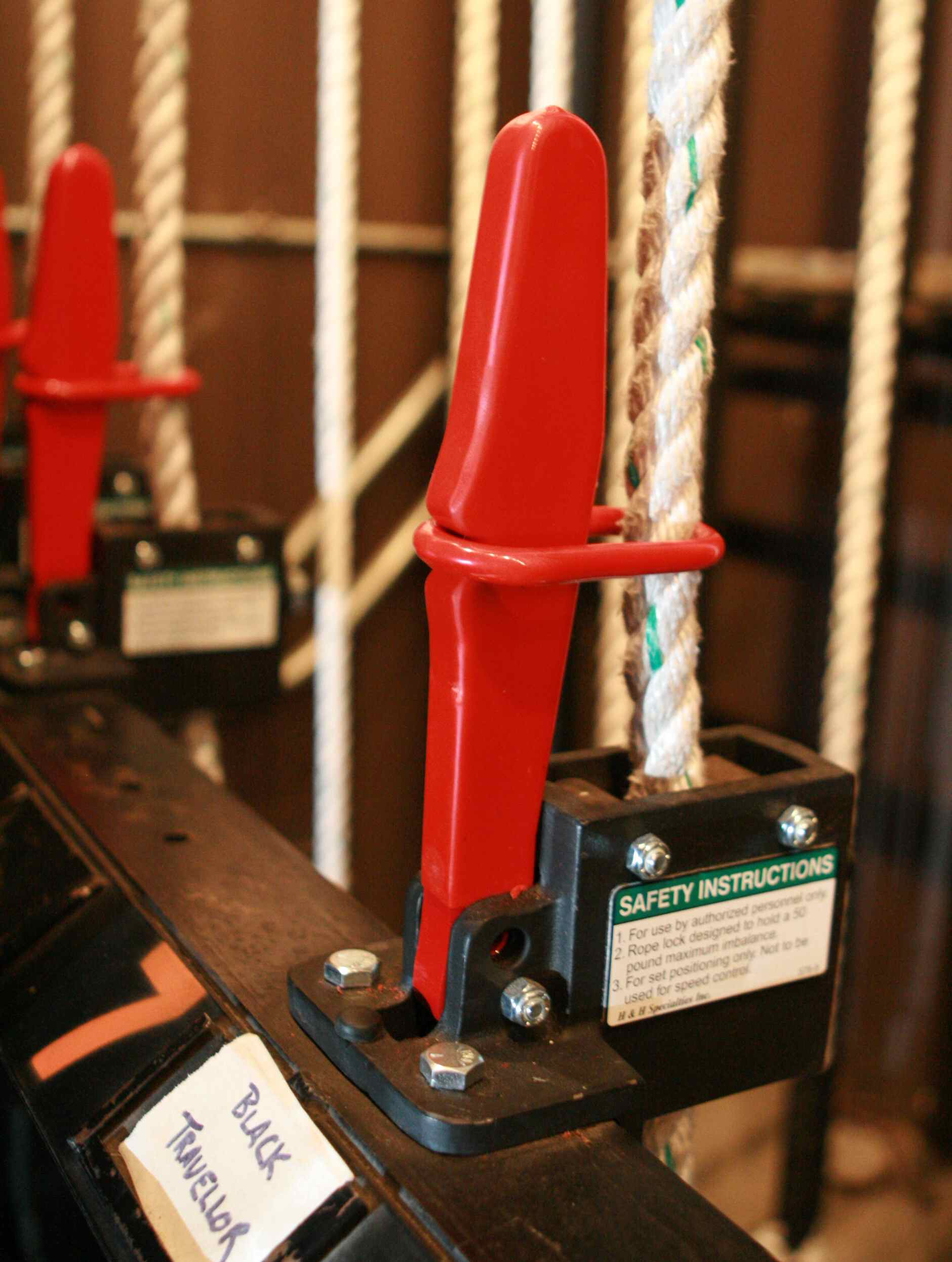 Rope lock with oval locking ring, part of the fly system at the World Trade Center Theater in Portland, Oregon.